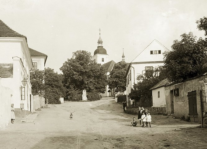 Chotoviny 22. července 1928, Josef Jindřich Šechtl.